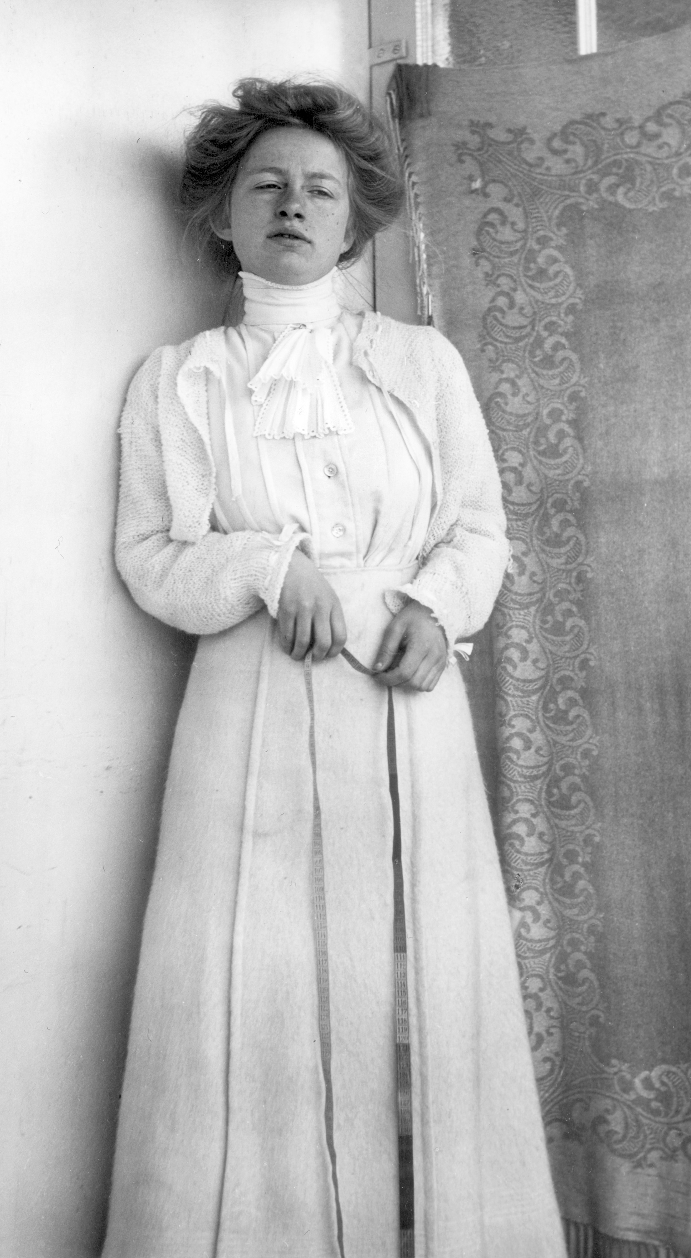 Edith Södergran med måttband i handen. Troligen taget med självutlösare. Edith Södergrans samling Signum: slsa566_343 Foto: Edith Södergran Svenska litteratursällskapet i Finland